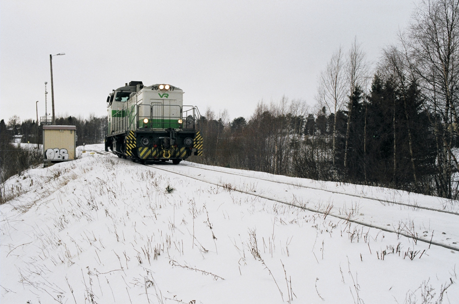 Finnish diesel locomotive, VR class Dv12, number 2617, has brought a few steel coil wagons to Haparanda, Sweden, and has then returned to Tornio, Finland. Photographed here, coming from the Kirkonmäki area of the city, the locomotive is approaching the Kirkkopudas railway bridge.